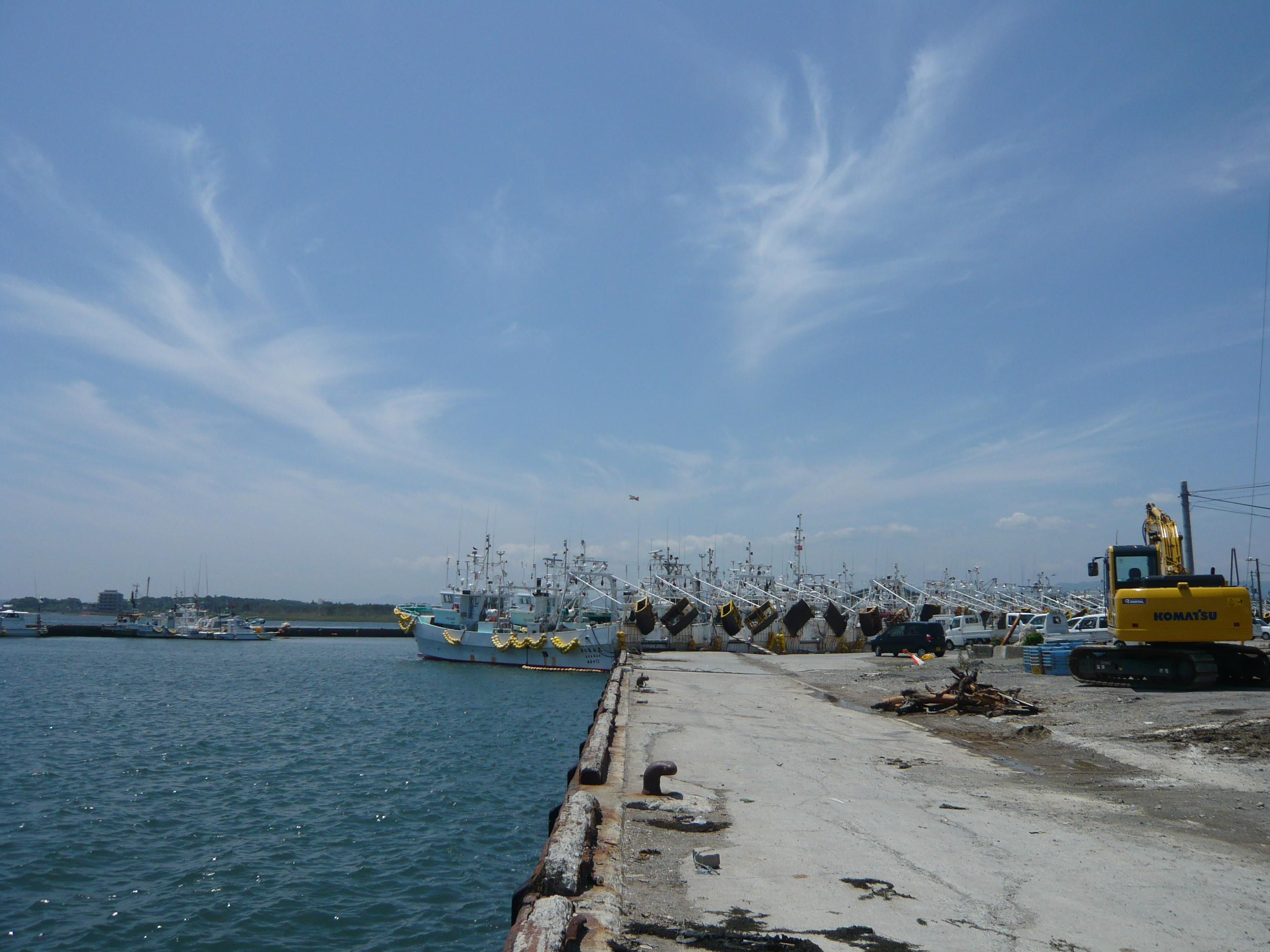 Matsukawaura Fishing Port in Soma City, Fukushima Prefecture, Japan